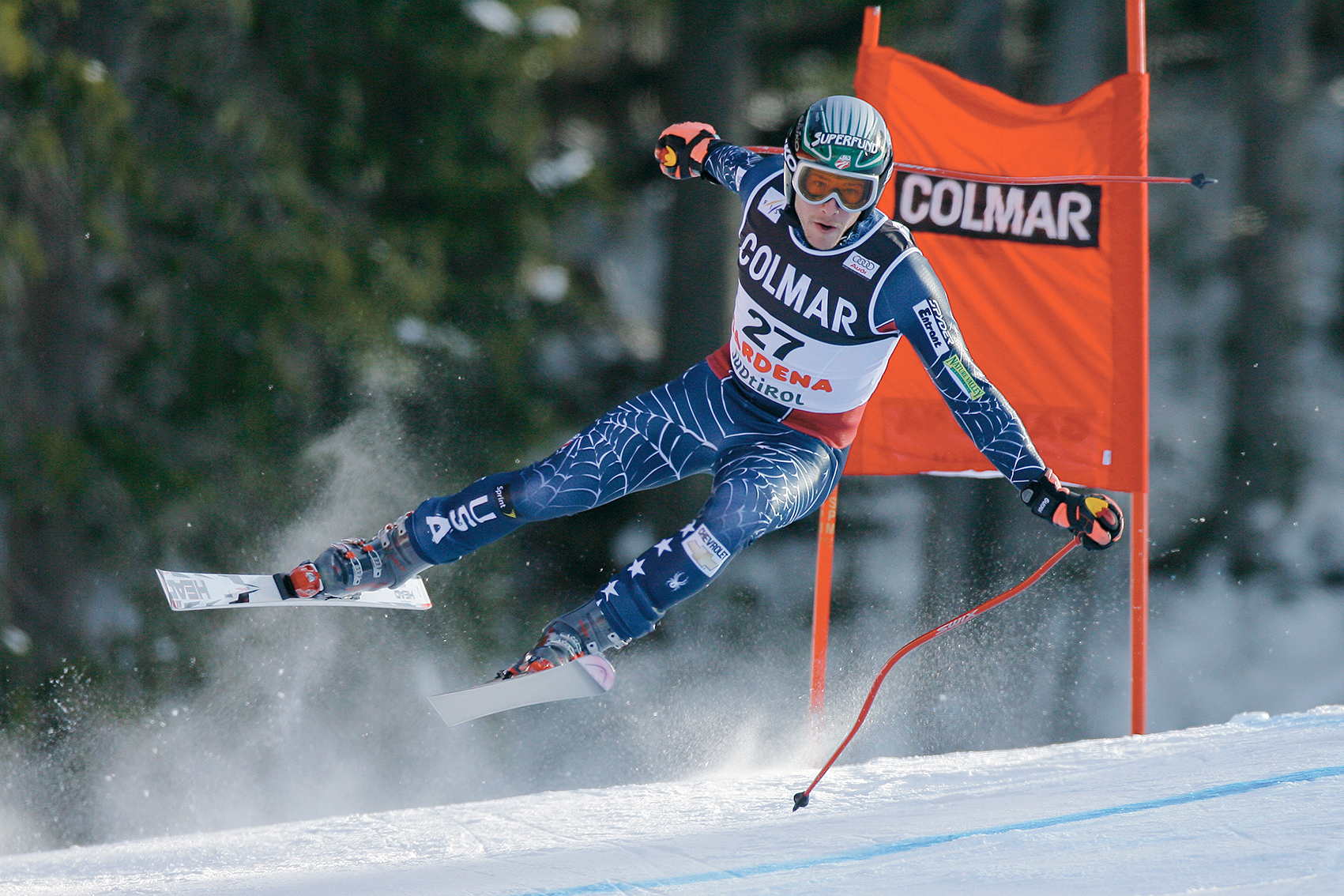 Miller Bode 2007, DH WorldCup Val Gardena/ Gröden-Wolkenstein